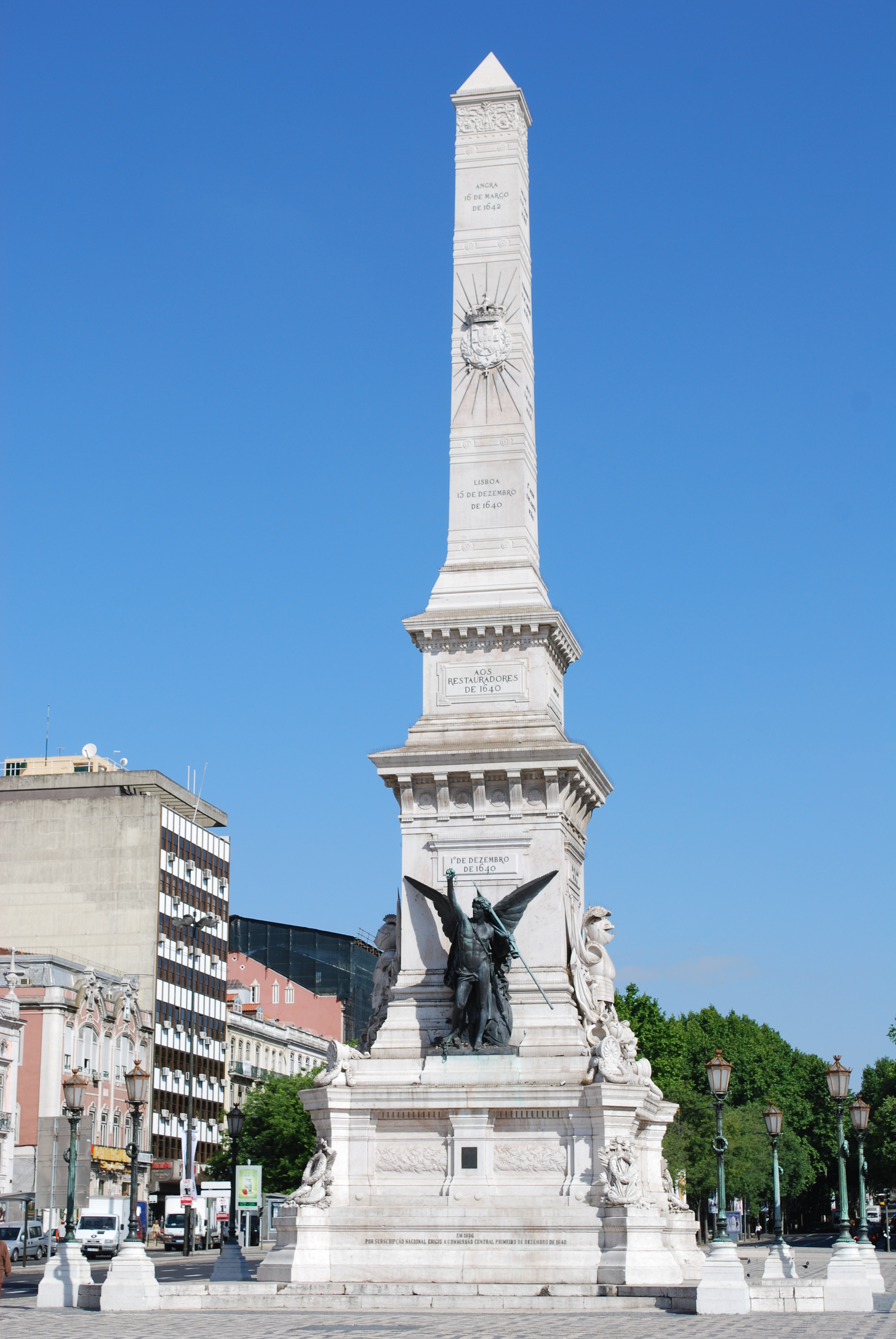 This file was uploaded for Wiki Loves Monuments in Portugal with the unique identifier 97026923.